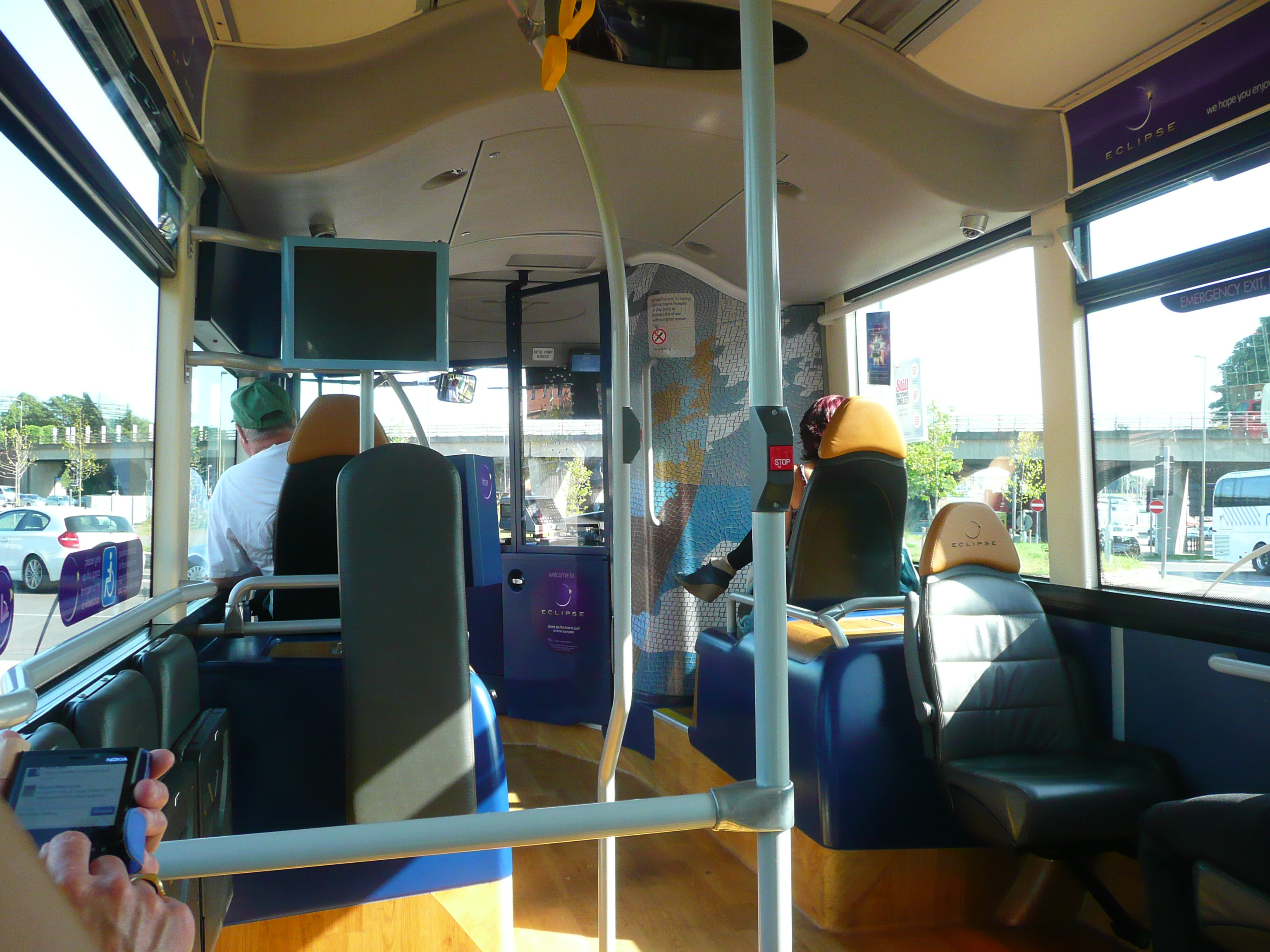 Inside an Eclipse BRT bus. Note the mosaic on the bulkhead behind the bus driver and the infotainment (passenger information & entertainment) display screen behind the front passenger on the left.